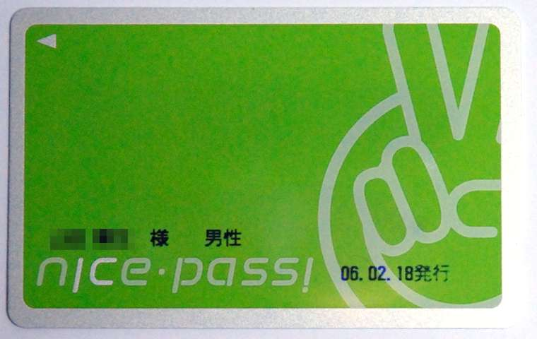 NicePass IC Card (Issued by Entetsu, the Japanese local railway and bus company) Photo by Ichitaro